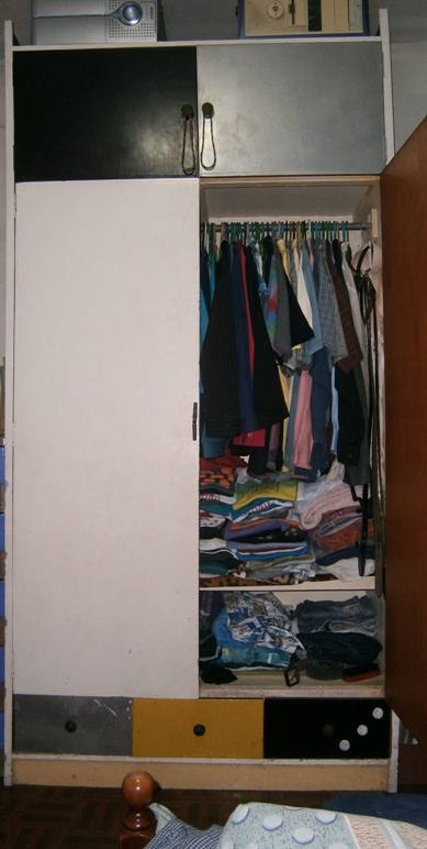 A typical modern wall-mounted space-saving closet.